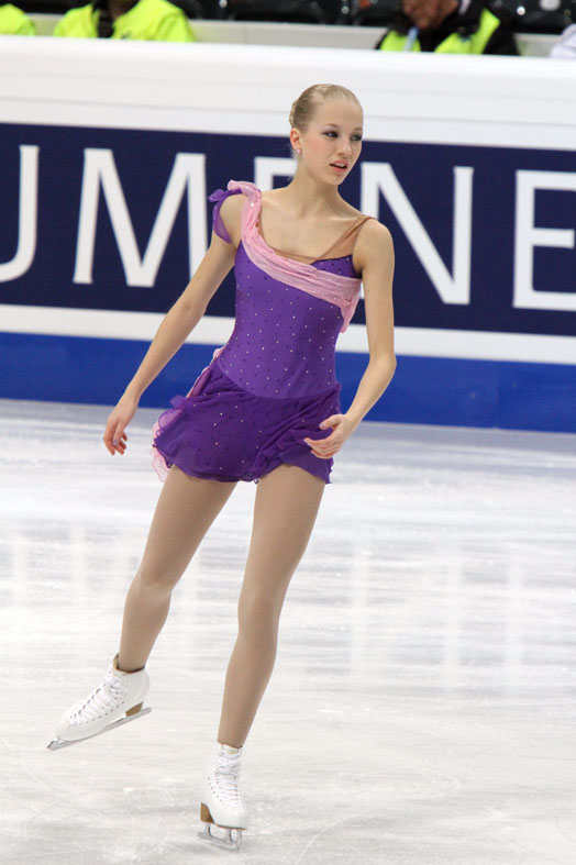 Juulia Turkkila at the 2011 European Figure Skating Championships (Short program)